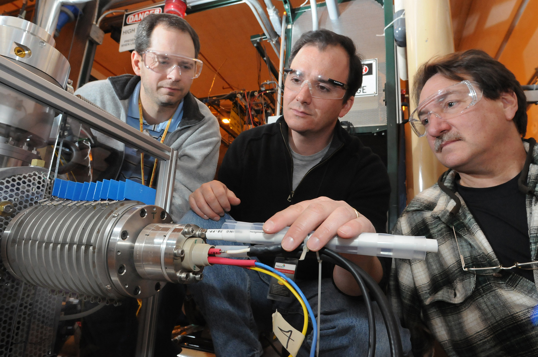 The following is the author's description of the photograph quoted directly from the photograph's Flickr page."Argonne scientists Bob Scott (left), Rick Vondrasek and Gary Zinkann inspect the surface ionization source, which provides stable beams to the charge breeder at the Argonne Tandem-Linac Accelerator System (ATLAS)."